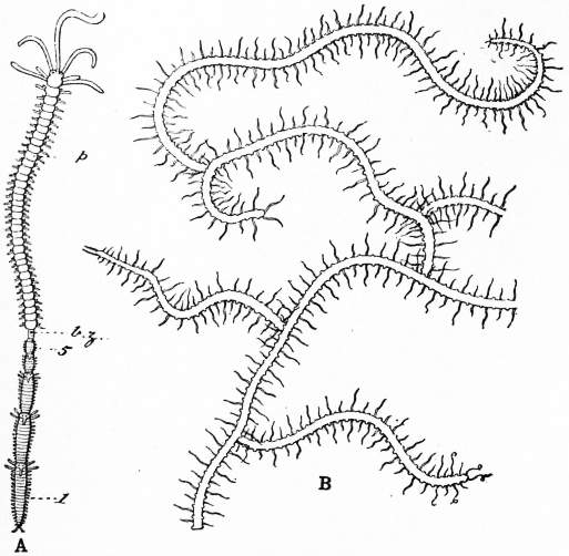 EB1911 Chaetopoda Fig. 5.—A, Autolytus (after Mensch) with numerous buds